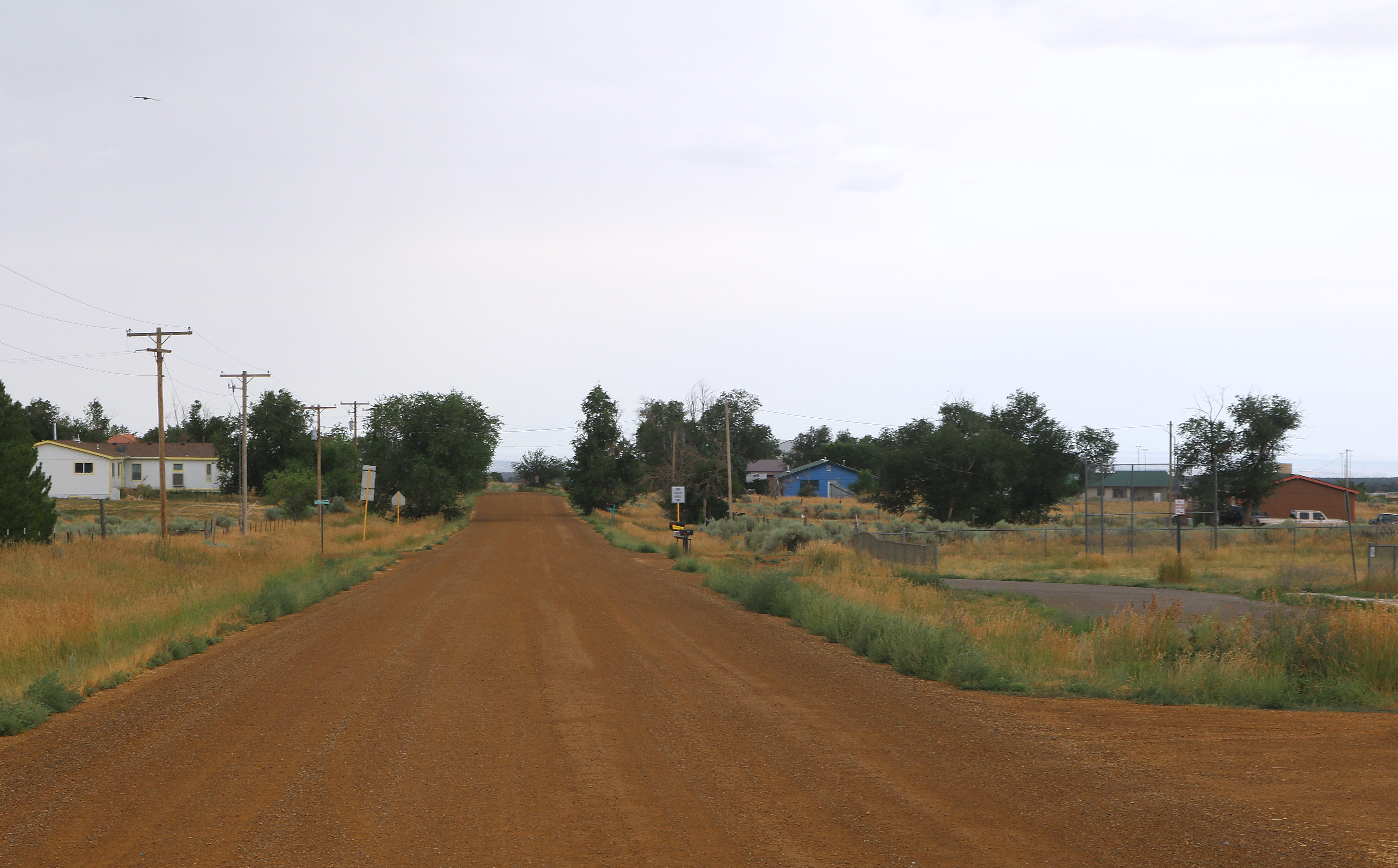 Looking south along County Road 122 in Kline, Colorado.